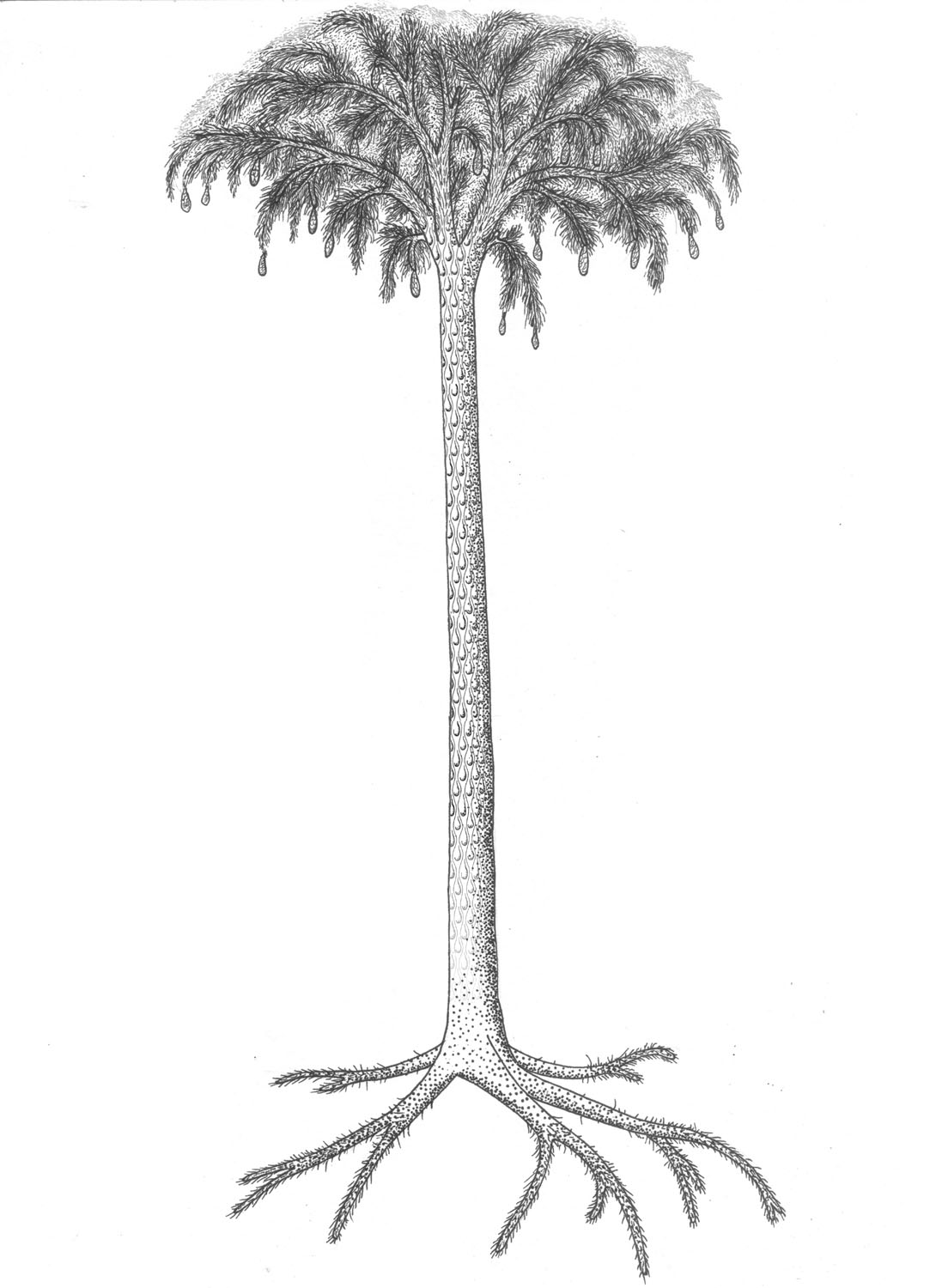 Reconstruction of a Lepidodendron plant from the known fossil remains